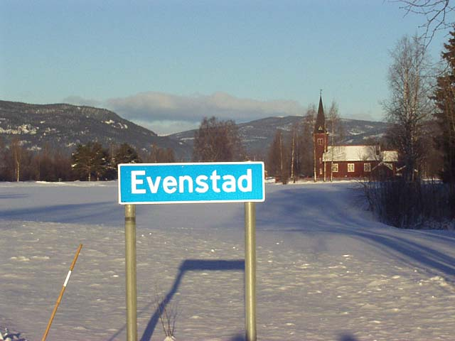 This photo was taken by Arthur de Wolf and Amy Evenstad on their roadtrip to Evenstad in February 2002.